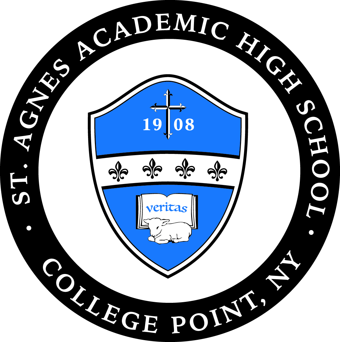 The Dominican Cross represents the Sisters of St. Dominic. 1908 was the year SAAHS was founded. The lily, represented by the fleurs-de-lis is a symbol of St. Agnes and St. Dominic. The four fleurs-de-lis; each with 3 petals, represent the original 12 congregations of the Sisters of St. Dominic. The open book represents knowledge and education. Veritas is Latin for truth and representative of the Sisters of St. Dominic. The lamb is a symbol of St. Agnes.